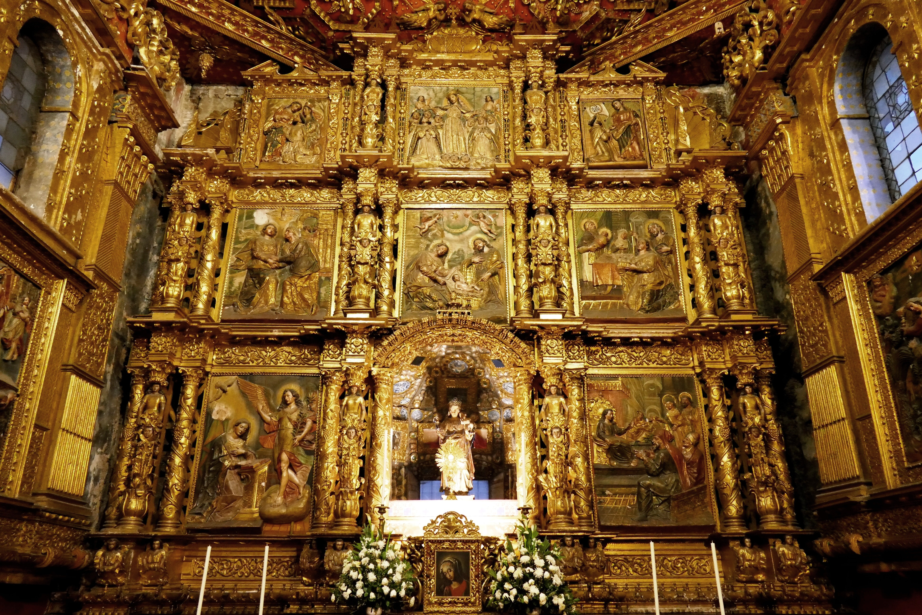 The mid-16th-century Iglesia de Santo Domingo boasts one of the most richly decorated interiors in Colombia. To the left as you enter is the large Capilla del Rosario, dubbed La Capilla Sixtina del Arte Neogranadino (Sistine Chapel of New Granada's Art). Decorated by Fray Pedro Bedón from Quito, the chapel is exuberantly rich in wonderful, gilded woodcarving – a magnificent example of Hispano-American baroque art.